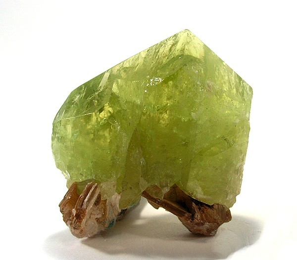 Brazilianite, Muscovite Locality: Córrego Frio mine, Linópolis, Divino das Laranjeiras, Doce valley, Minas Gerais, Southeast Region, Brazil (Locality at ) This specimen came out in the 1940’s when the species was first identified and named brazilianite. Muscovite at the base of the piece makes this a rare matrix specimen, of which few survive today, let alone on the open market. The rich greenish-yellow color, high luster, transparency, and 3-dimensional completeness of this crystal combine to make this a significant brazilianite specimen worthy of any collection. It is pristine and complete all around, save for only a few trivial dings on rear edges and one small ding on a minor frontal edge, not affecting the display view, and for a smooth contact on the right side (again, not affecting the display view). It has one vertical repair, with a seamless junction, that I did not even realize was present until Steve told me so...it is there, but doesn't detract visually, in other words (and i did lower the price accordingly). Brazilianites of this completeness, and aesthetics, from the original finds get more uncommon every year. I buy every good one I can lay hands on. 4.9 x 4.3 x 2 cm